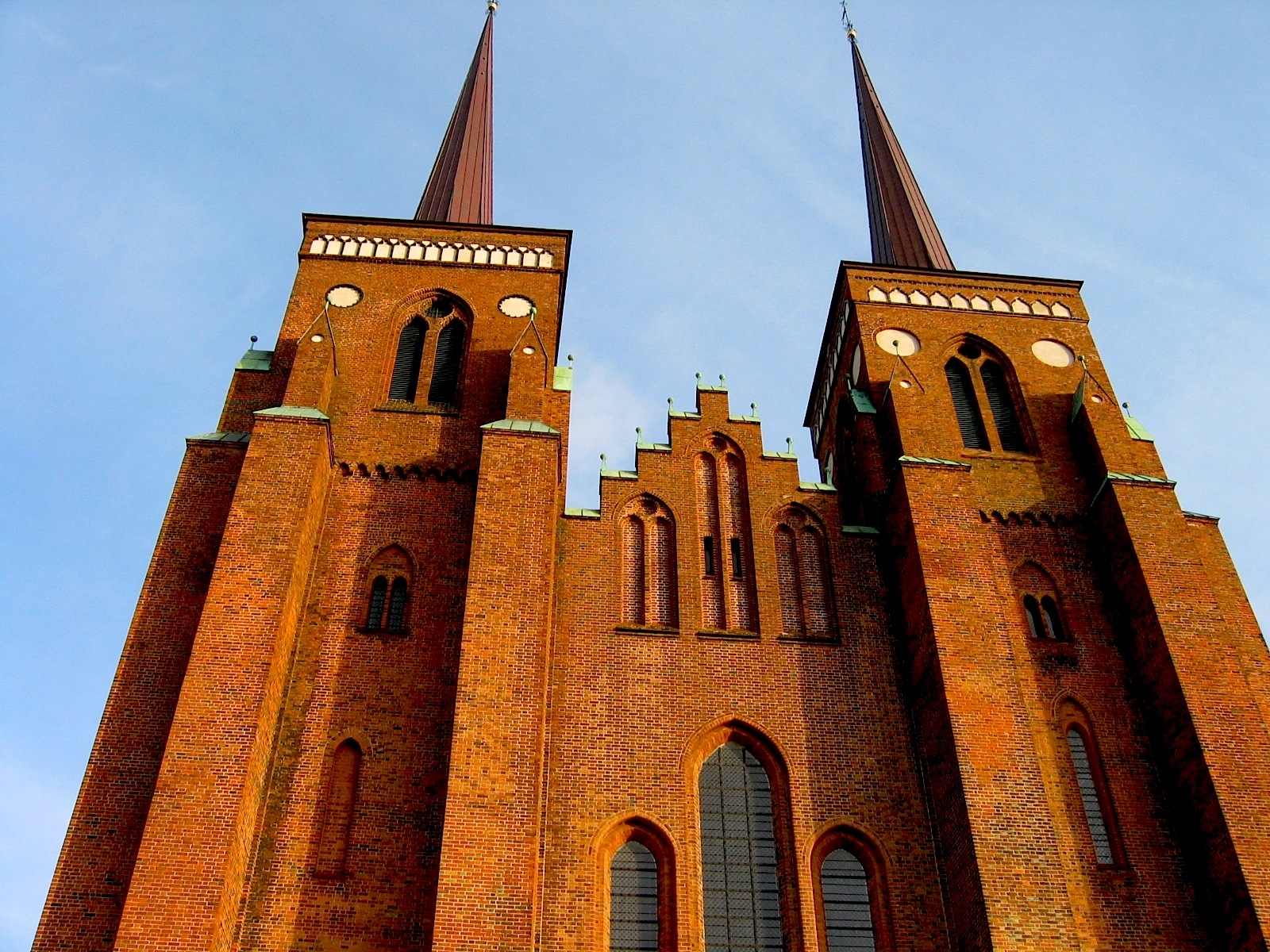 The façade of Roskilde Cathedral, Denmark